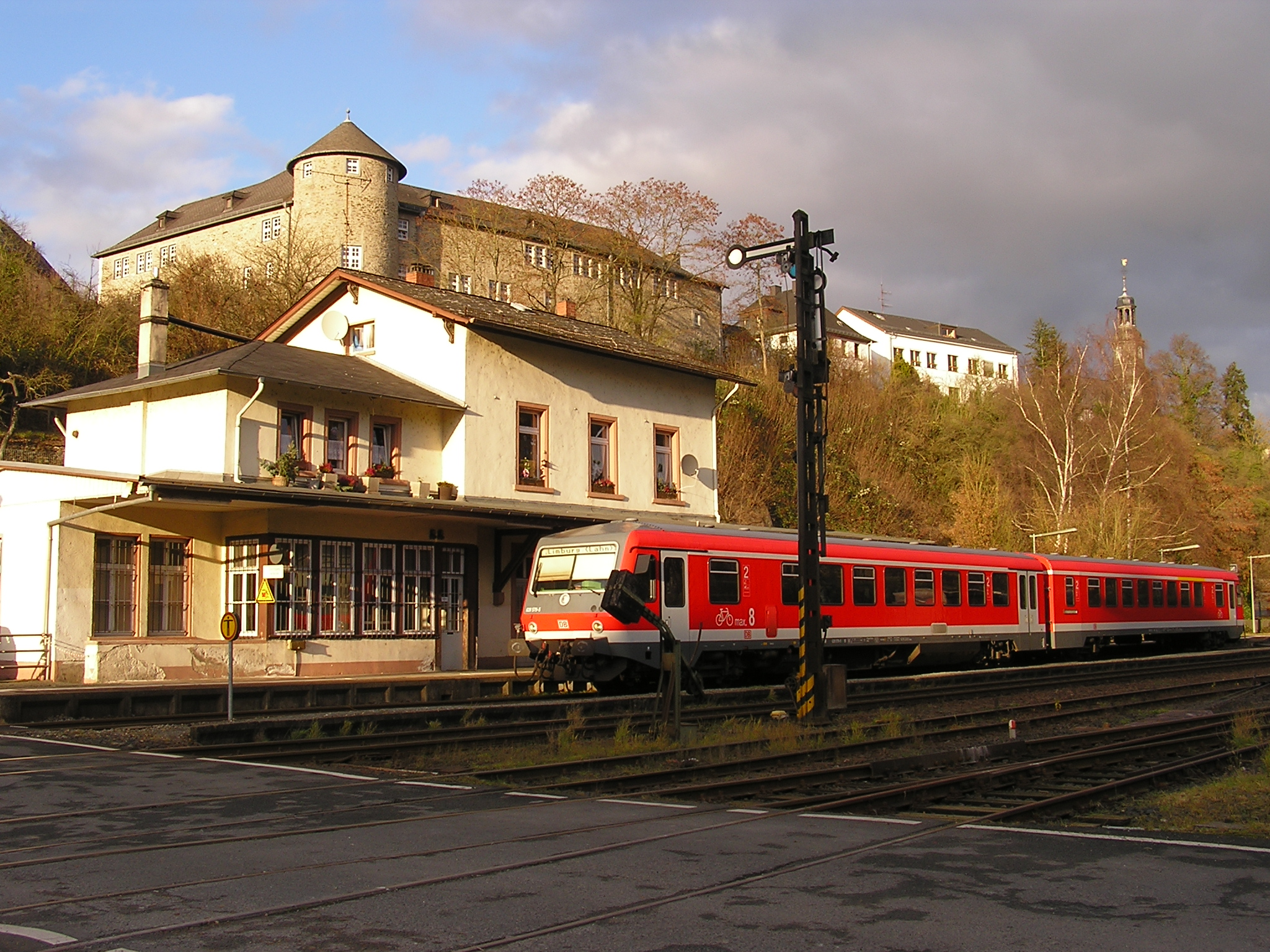 A class 628 DMU in Löhnberg station on the Lahntalbahn